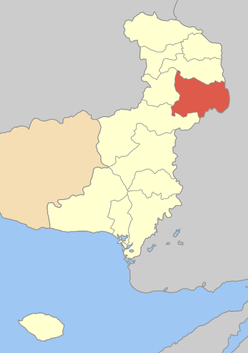 Locator map of Didymoticho municipality (Δήμος Διδυμοτείχου) in Evros prefecture (Νομός Έβρου) in Greece.